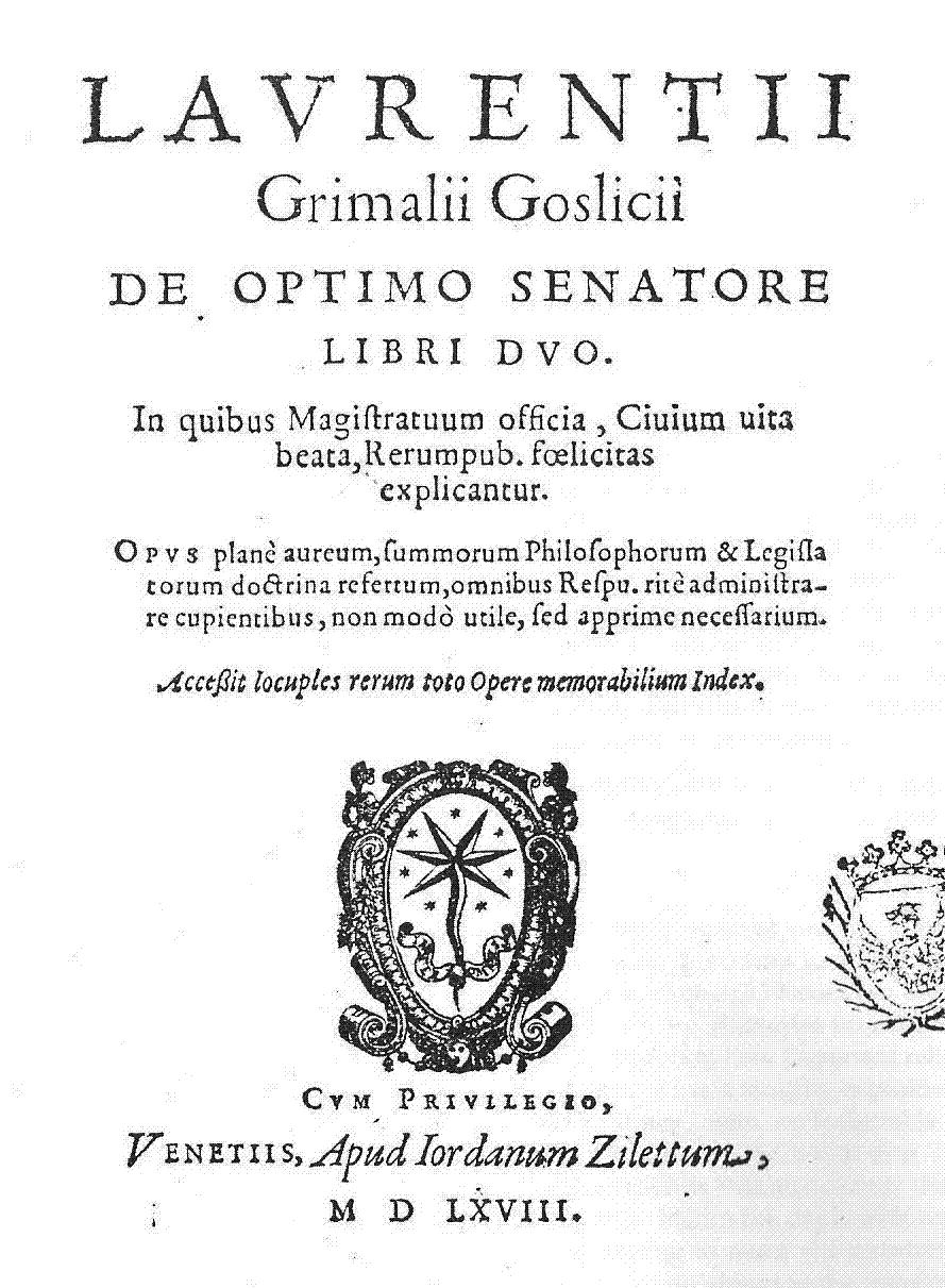 The title page of the first edition of Wawrzyniec Grzymała Goślicki's De optimo senatore, a famous political trait.